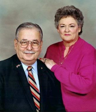 Mr. & Mrs. Villaronga